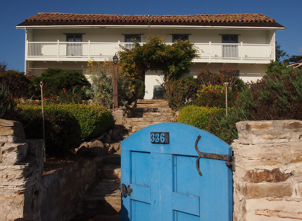 Casa Soberanes, 336 Pacific Street, Monterey, California, USA. Viewed from the east.